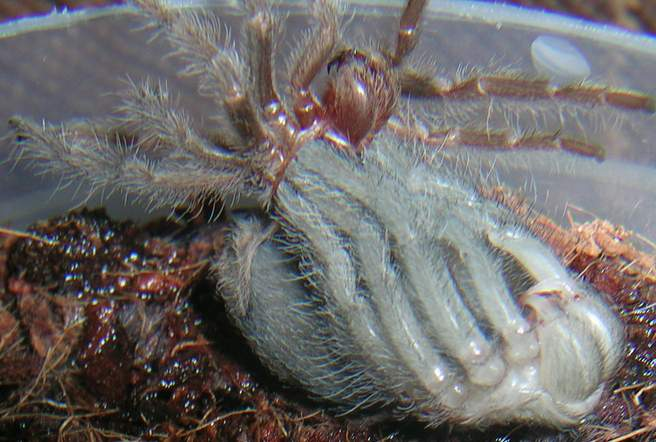 spider moulting process (8 photo)